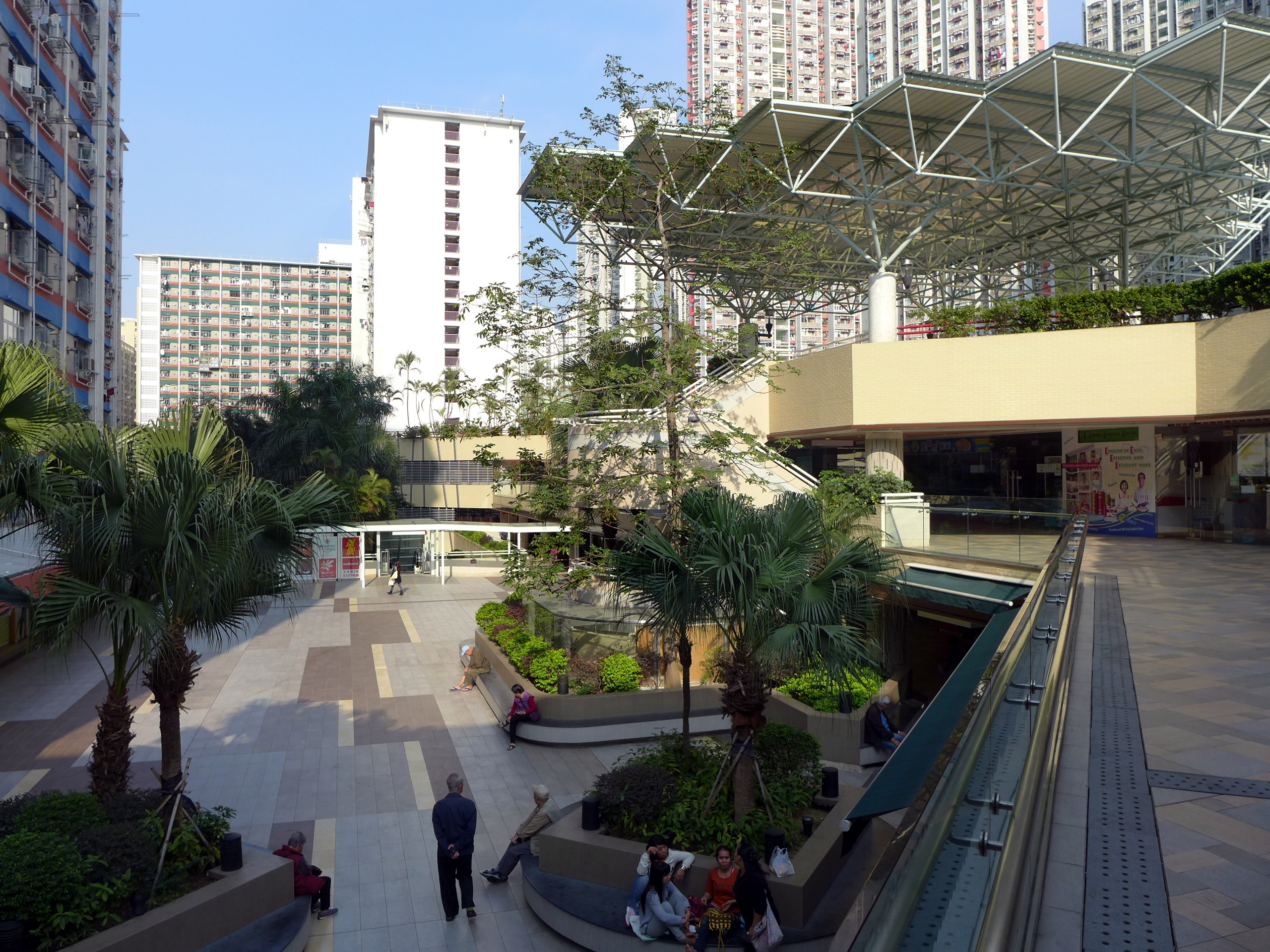 Chuk Yuen South Estate